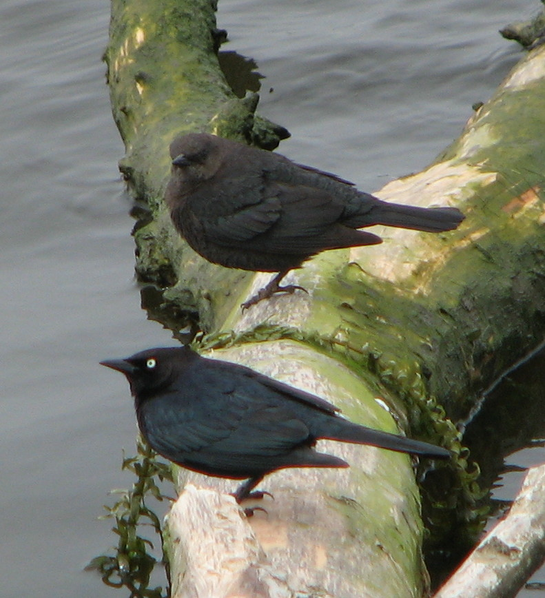 Two Brewer's Blackbirds at Clifton Court Forebay, California, USA.